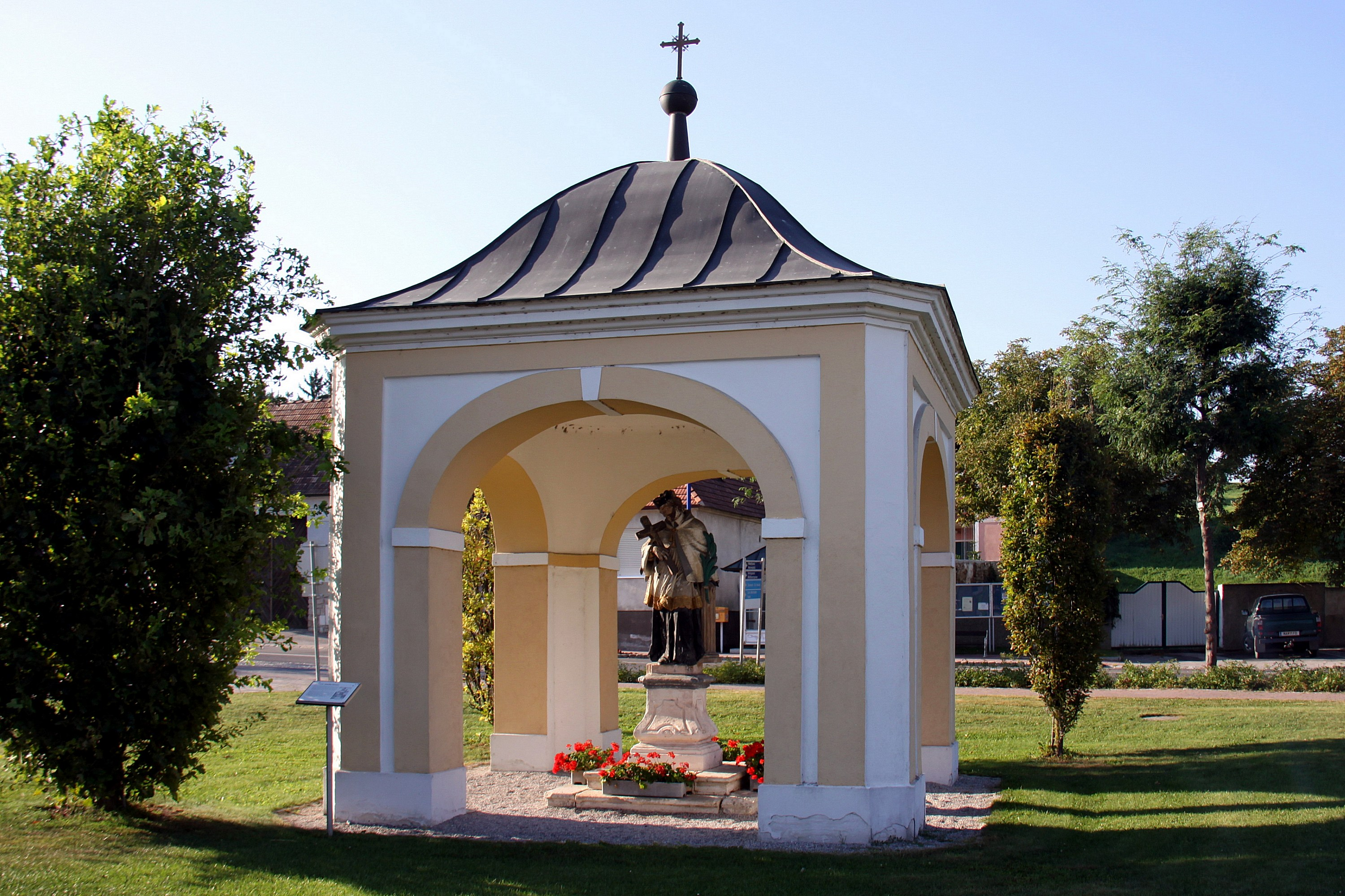 Johannes Nepomuk-Kapelle - Draßburg Object location47° 44′ 44.52″ N, 16° 29′ 23.93″ E